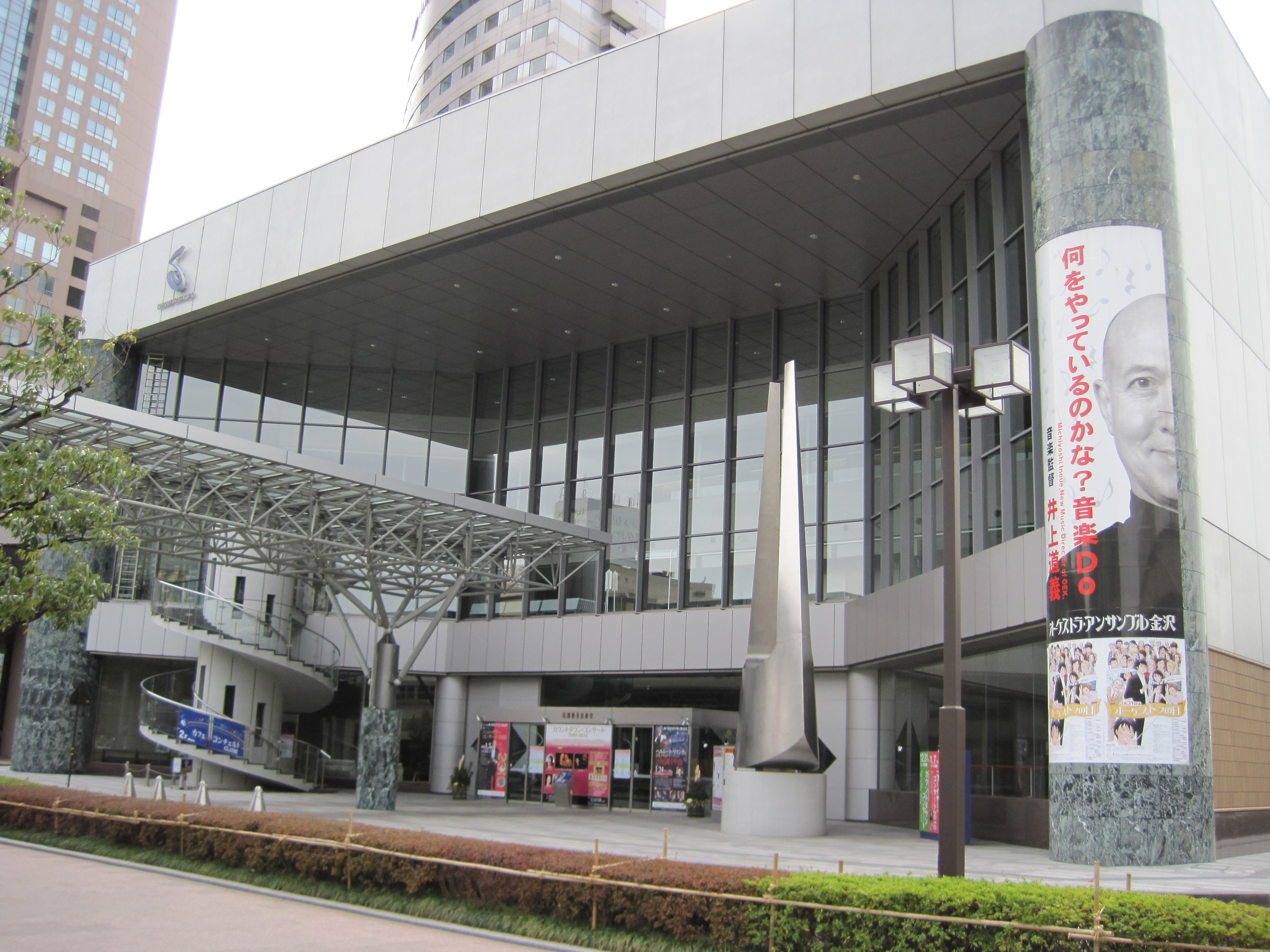 Ishikawa Kenritsu Ongakudo(Ishikawa Prefectural Concert Hall)